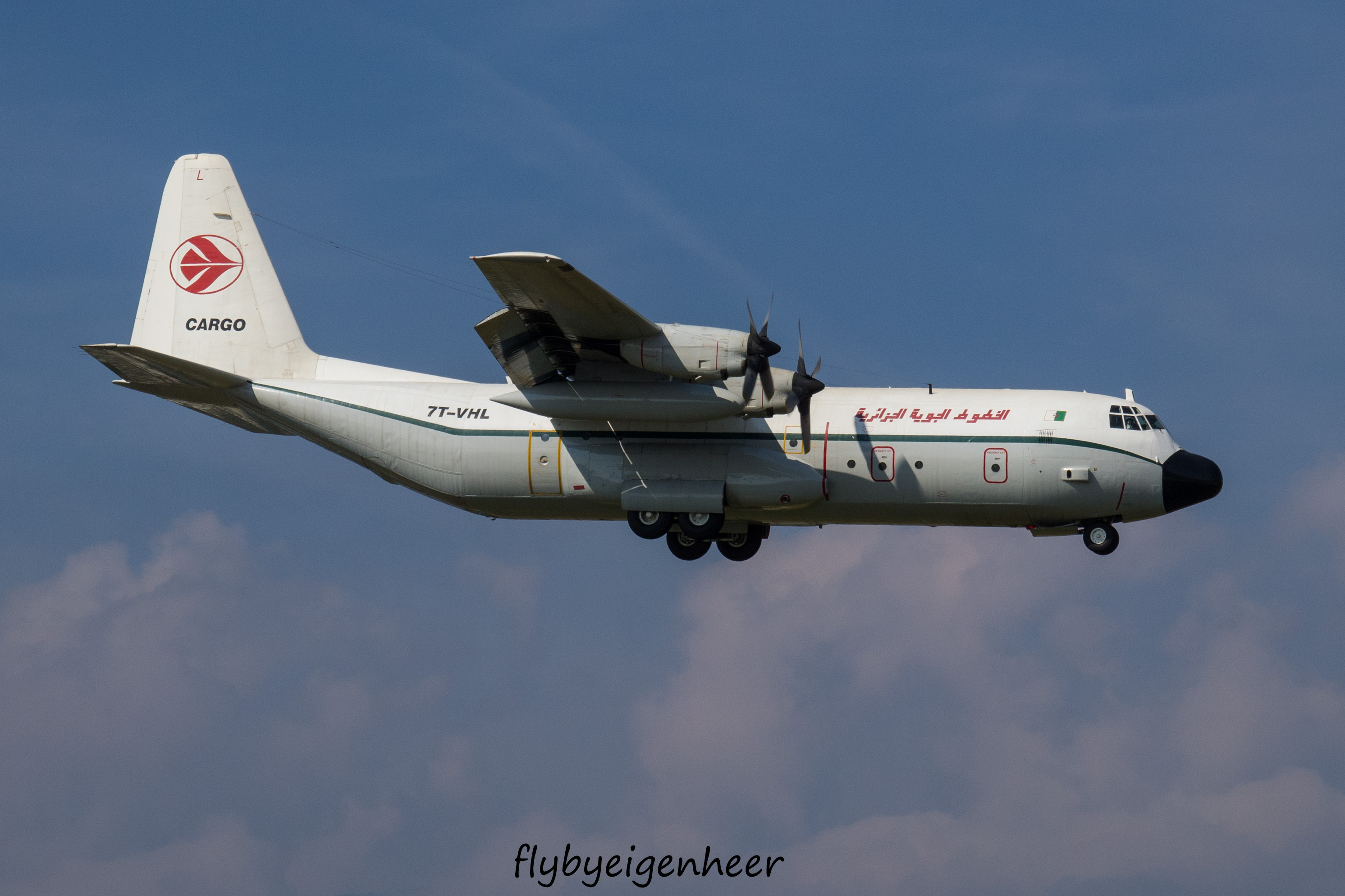 GVA 22.09.2016